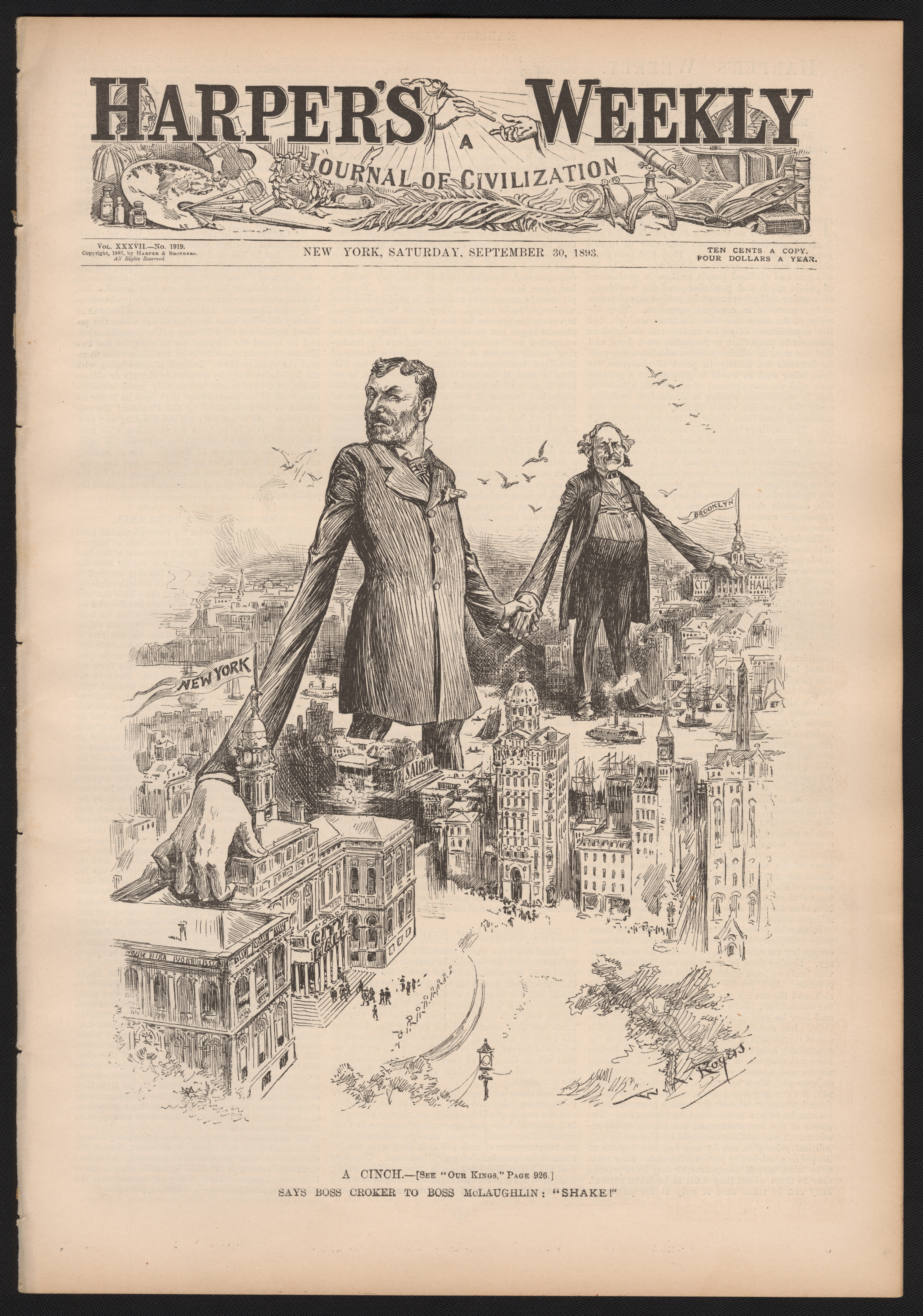 A bird's-eye-view of New York and Brooklyn.